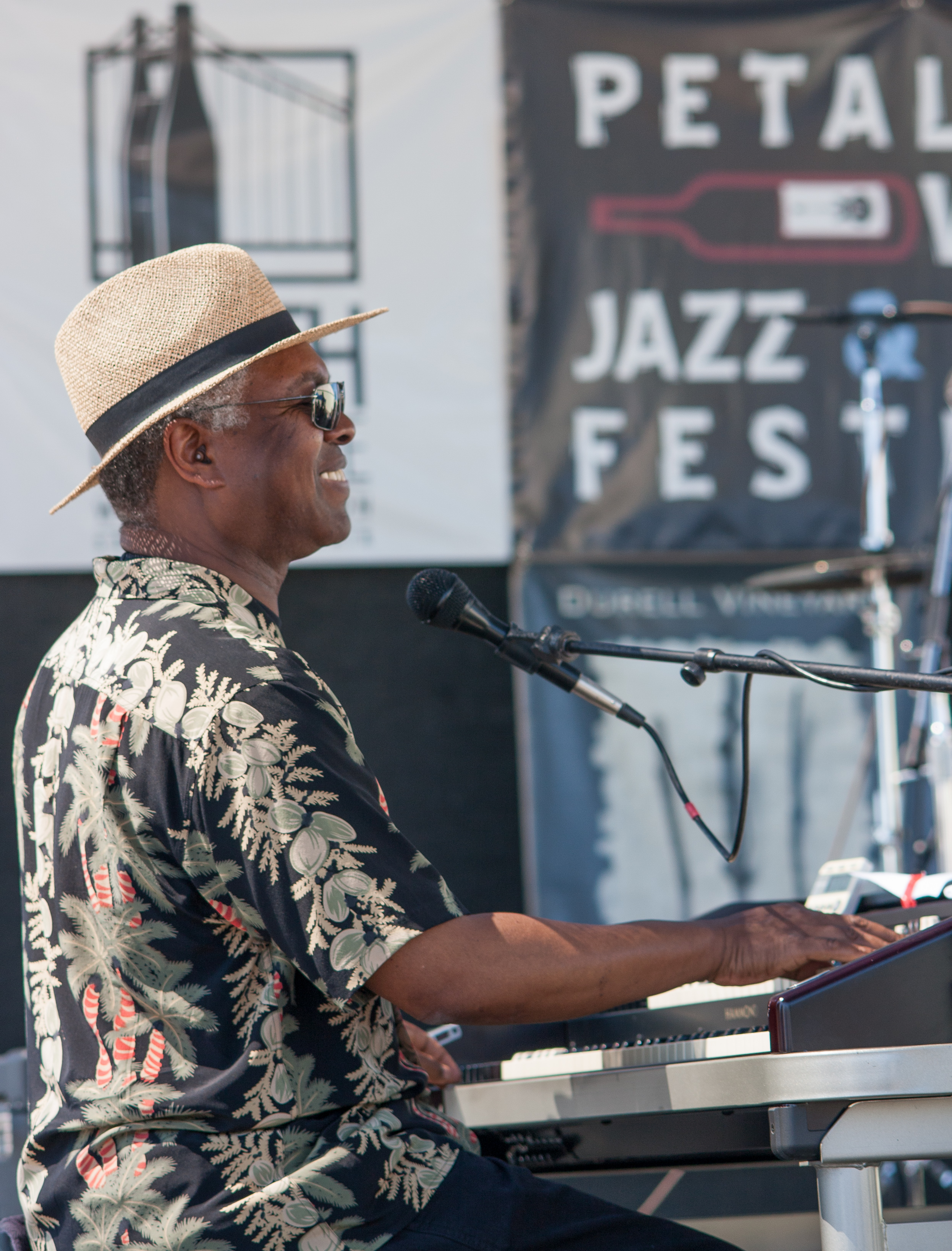 Booker T. Jones plays piano at the Petaluma Wine, Jazz, and Blues Festival, August 2009.